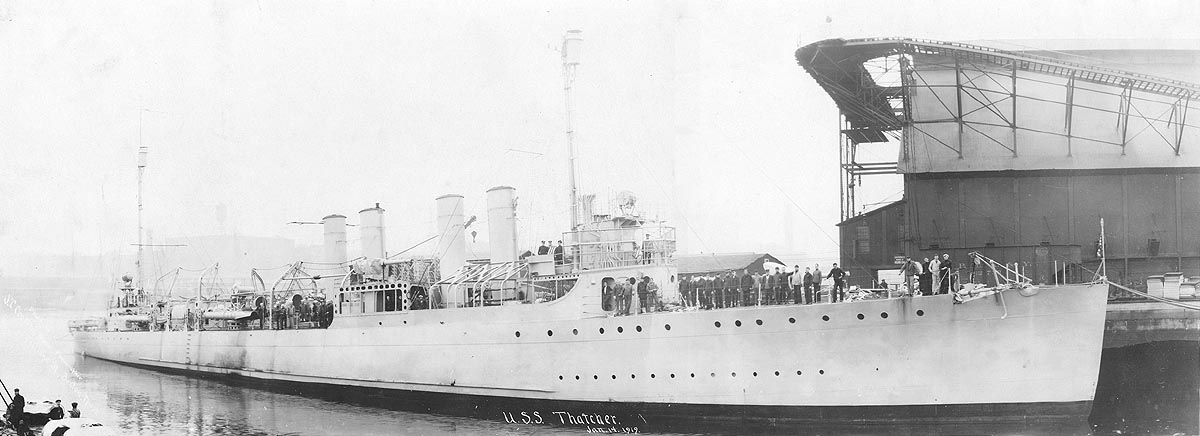 The U.S. Navy destroyer USS Thatcher (DD-162) at the Boston Navy Yard, Massachusetts (USA), 14 January 1919.